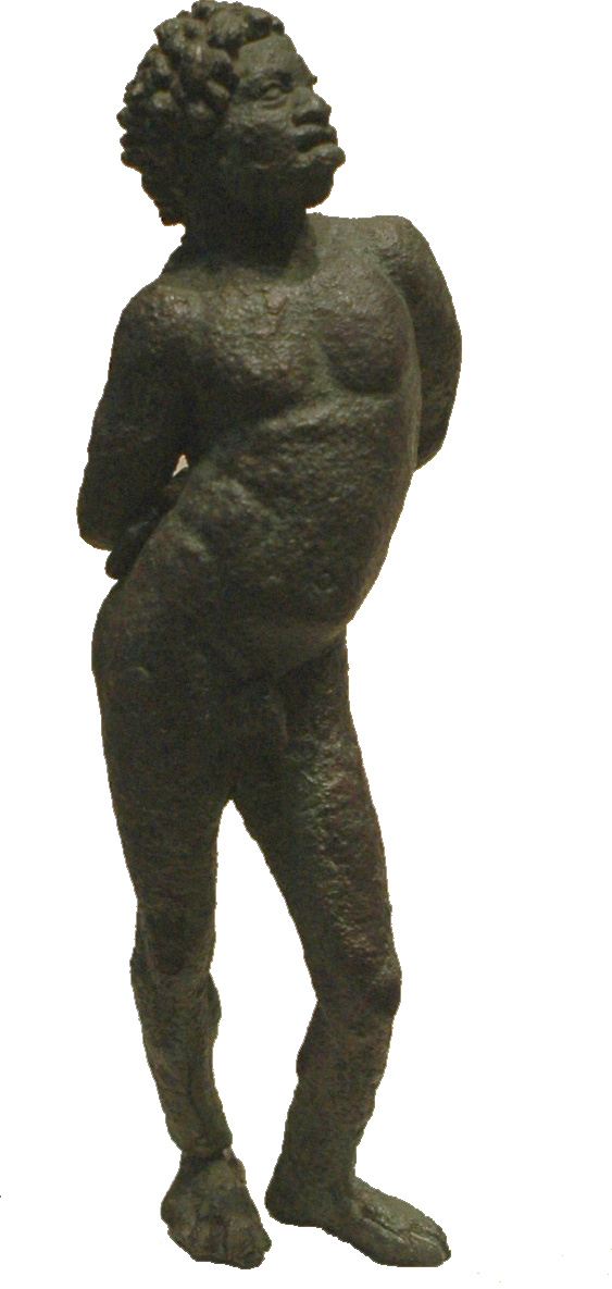 Black youth with hands bound behing his back. Found in the Fayum, near Memphis, Egypt, bronze, 2nd–1st century BC.